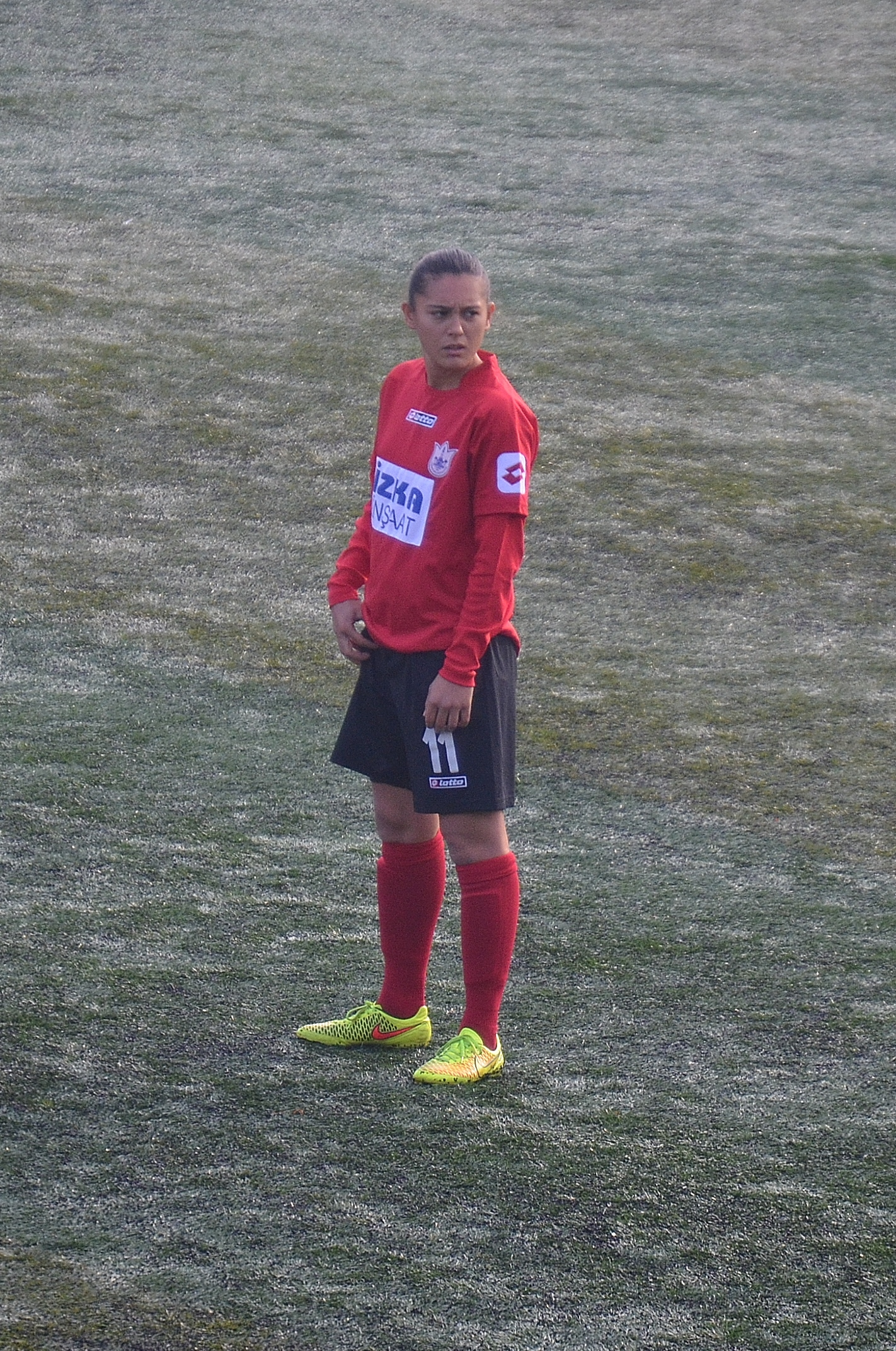 Yonca şentürk playing for Konak Belediyespor in the 2015-16 season